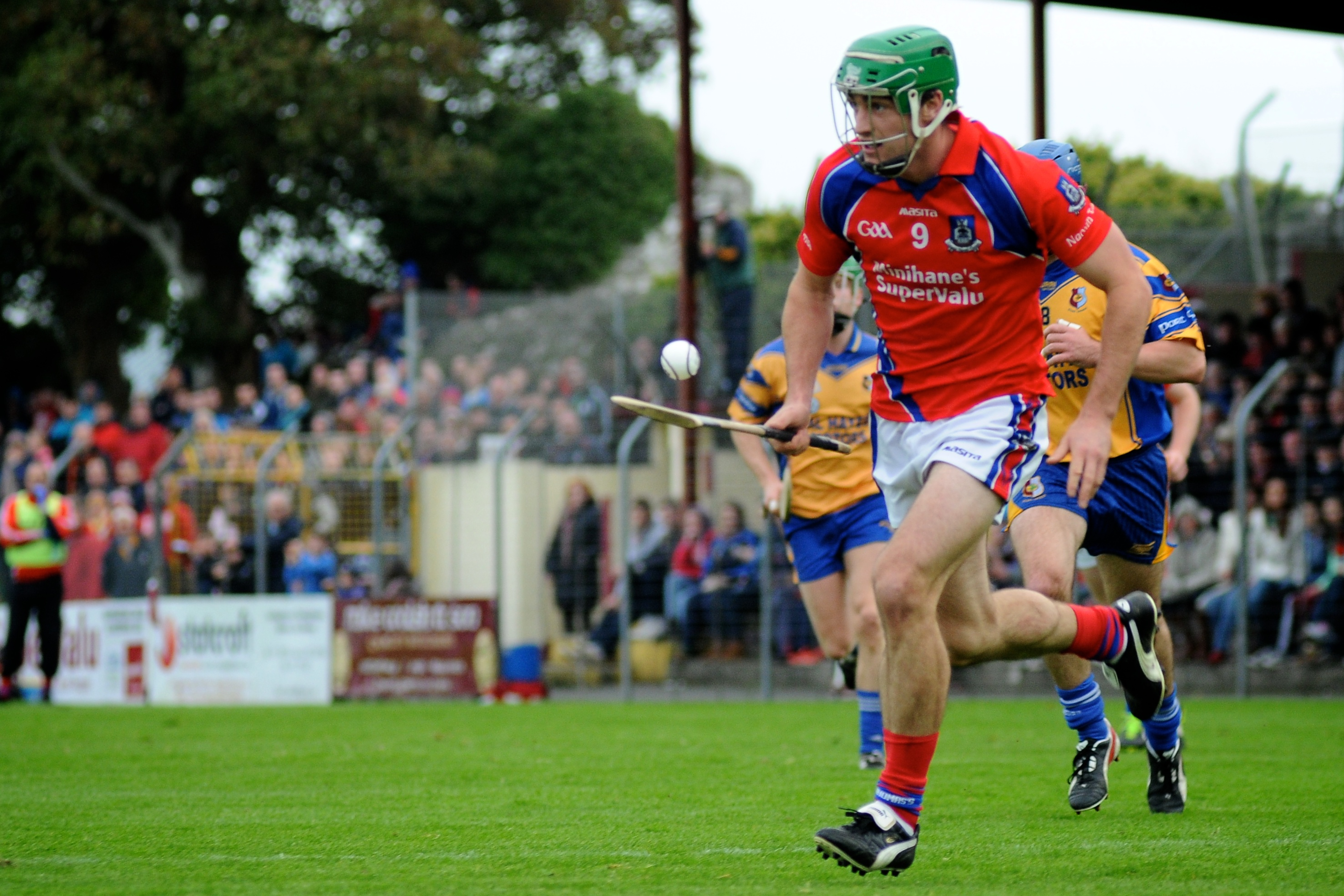 David Burke in action for St. Thomas' against Portumna in the 2013 Galway Senior Hurling Championship semi-final